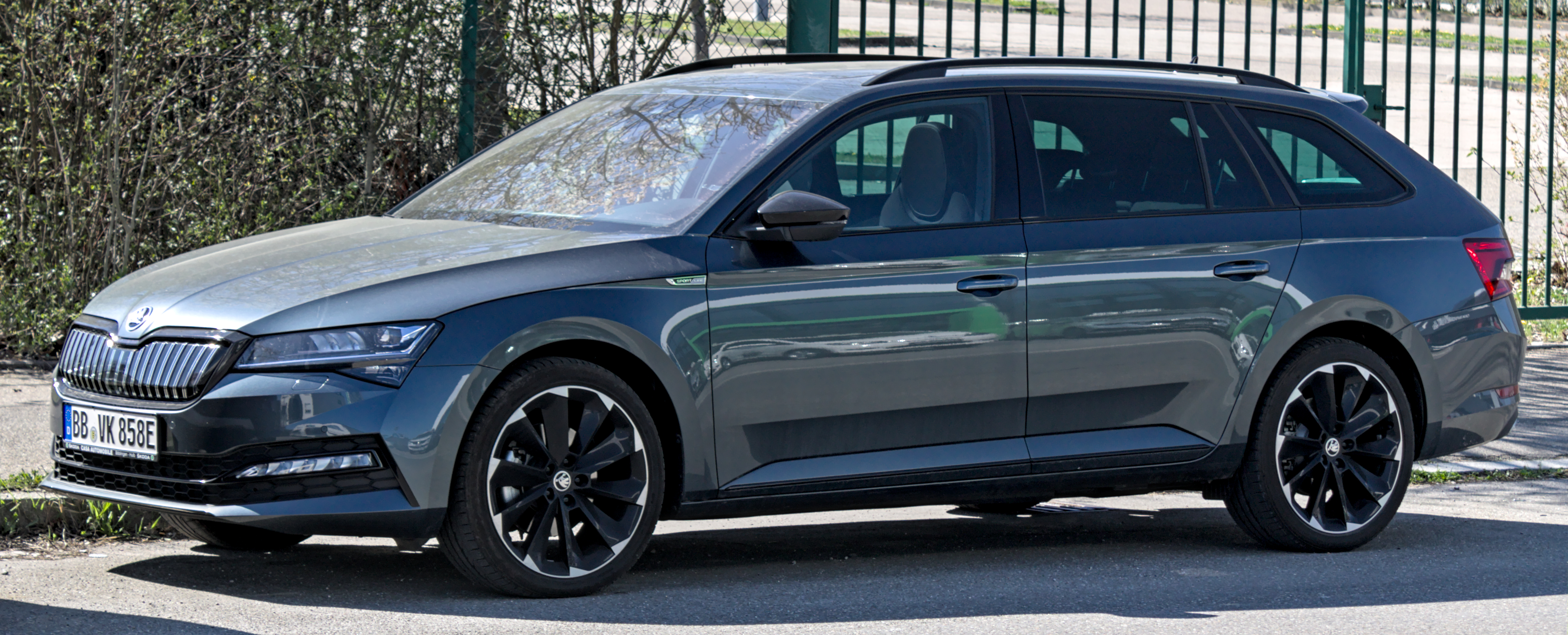 Skoda_Superb_III_Combi_iV in Böblingen